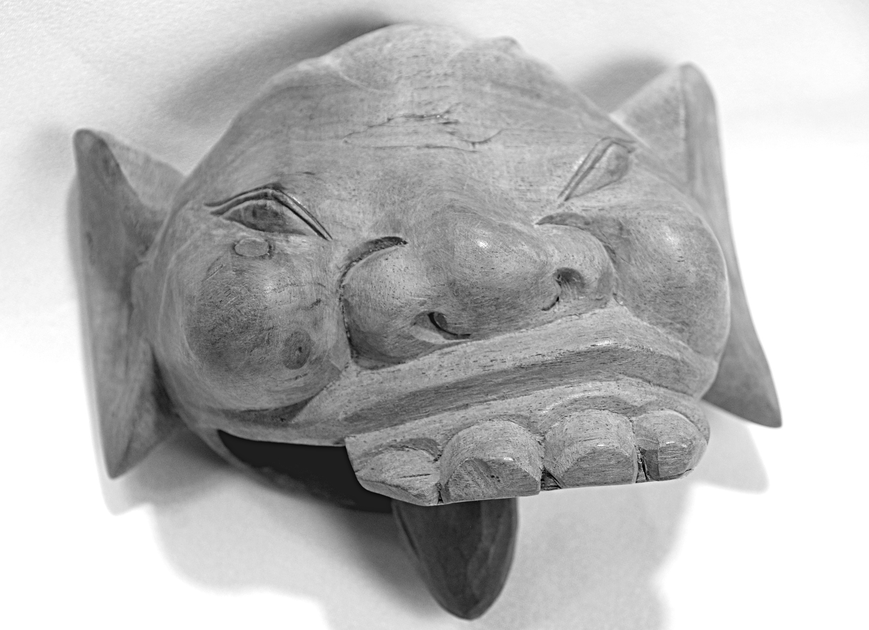 An Indonesian "Okakan" (wooden cow bell).